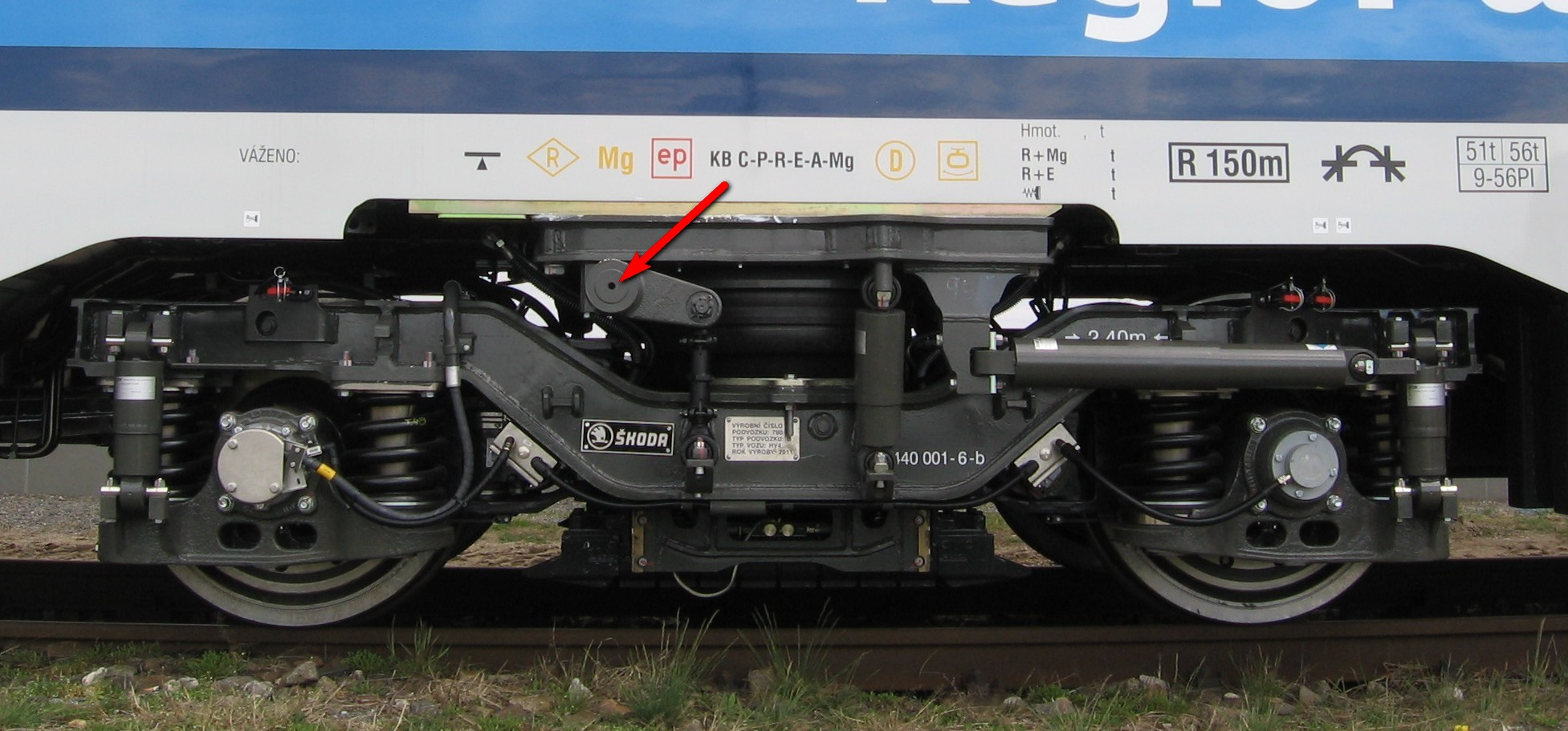 Trailing bogie of Škoda DC EMU Class 440. The arrow points to the anti-roll-bar.